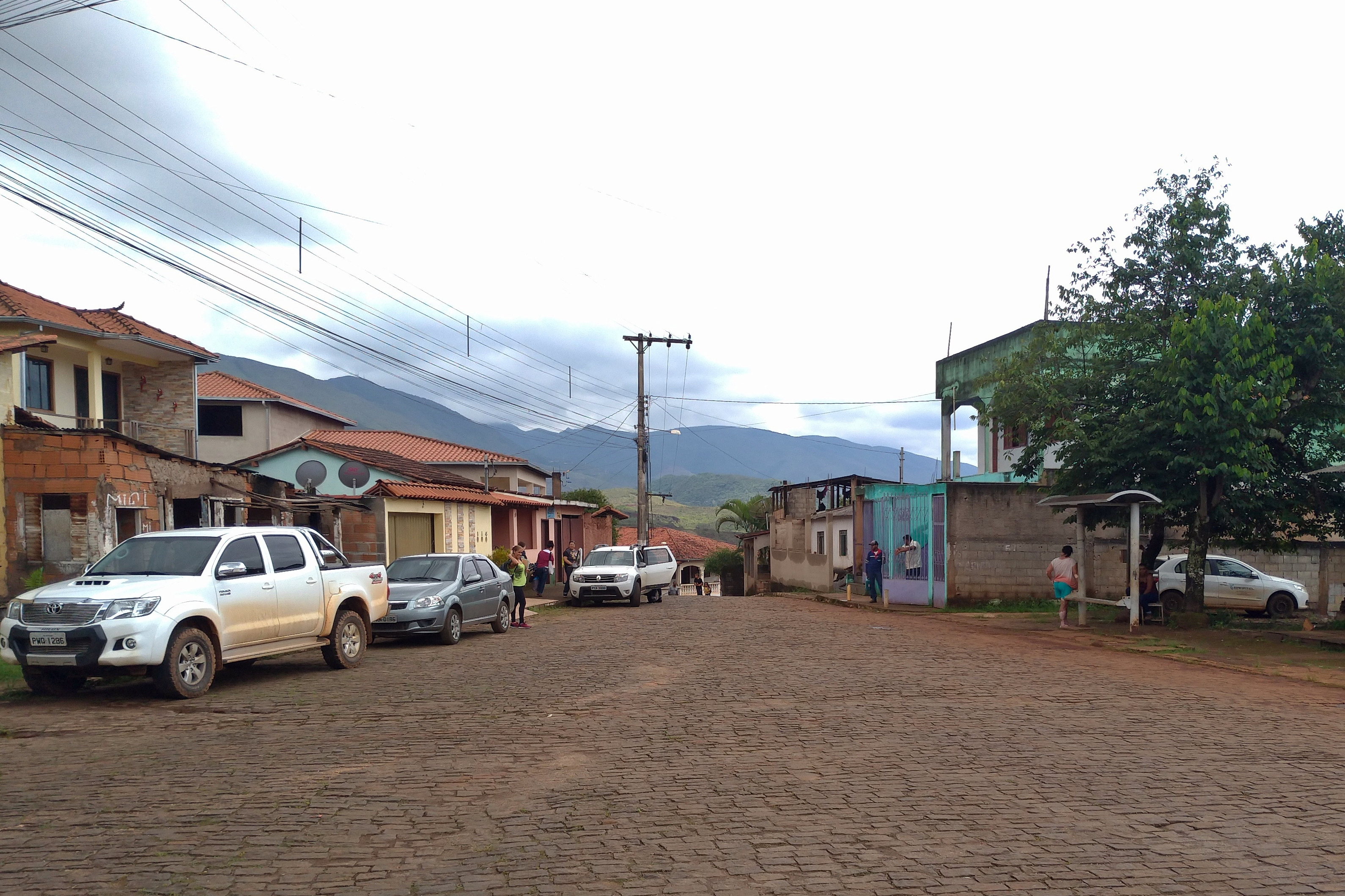 Main street of the Antônio Pereira district, in Ouro Preto, Minas Gerais, Brazil.